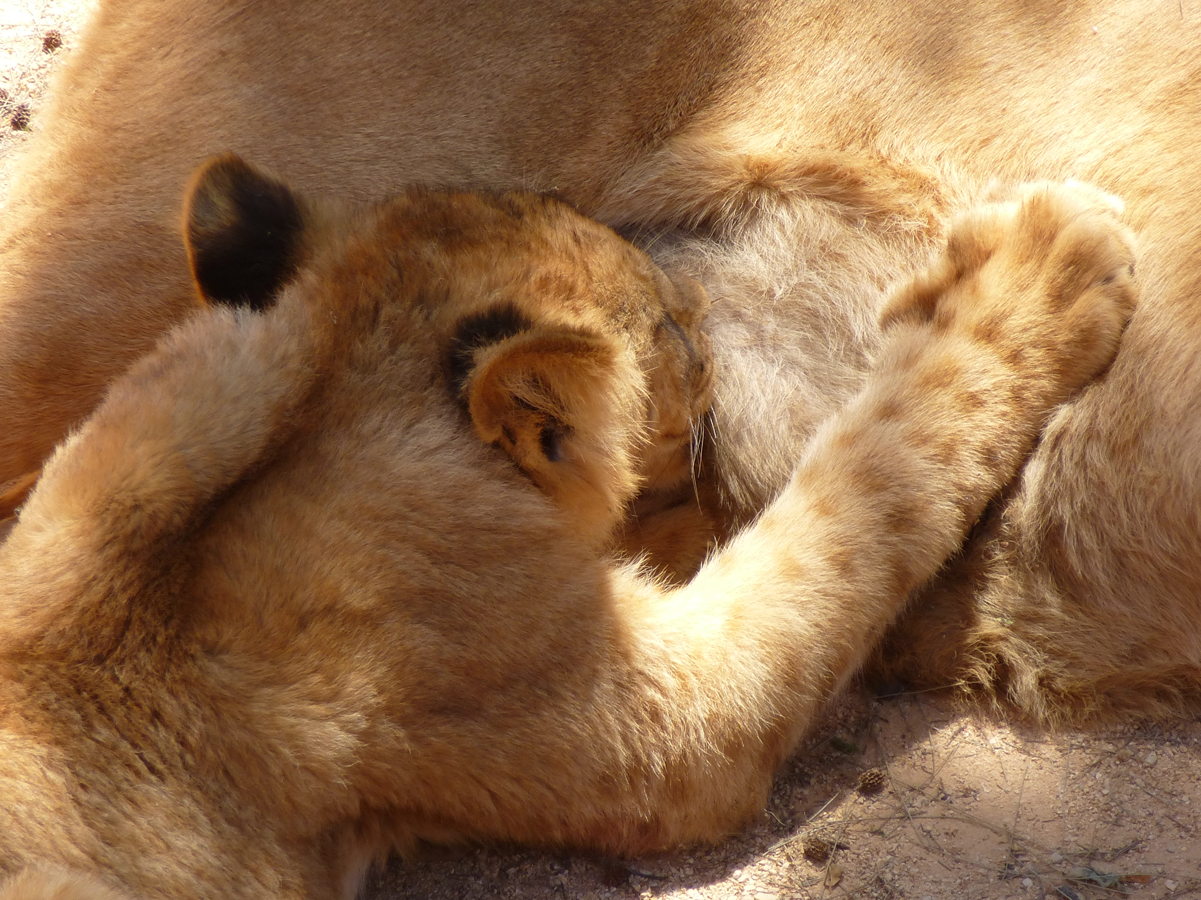 Panthera leo, suckling young lion. Lisbon Zoo. Portugal.